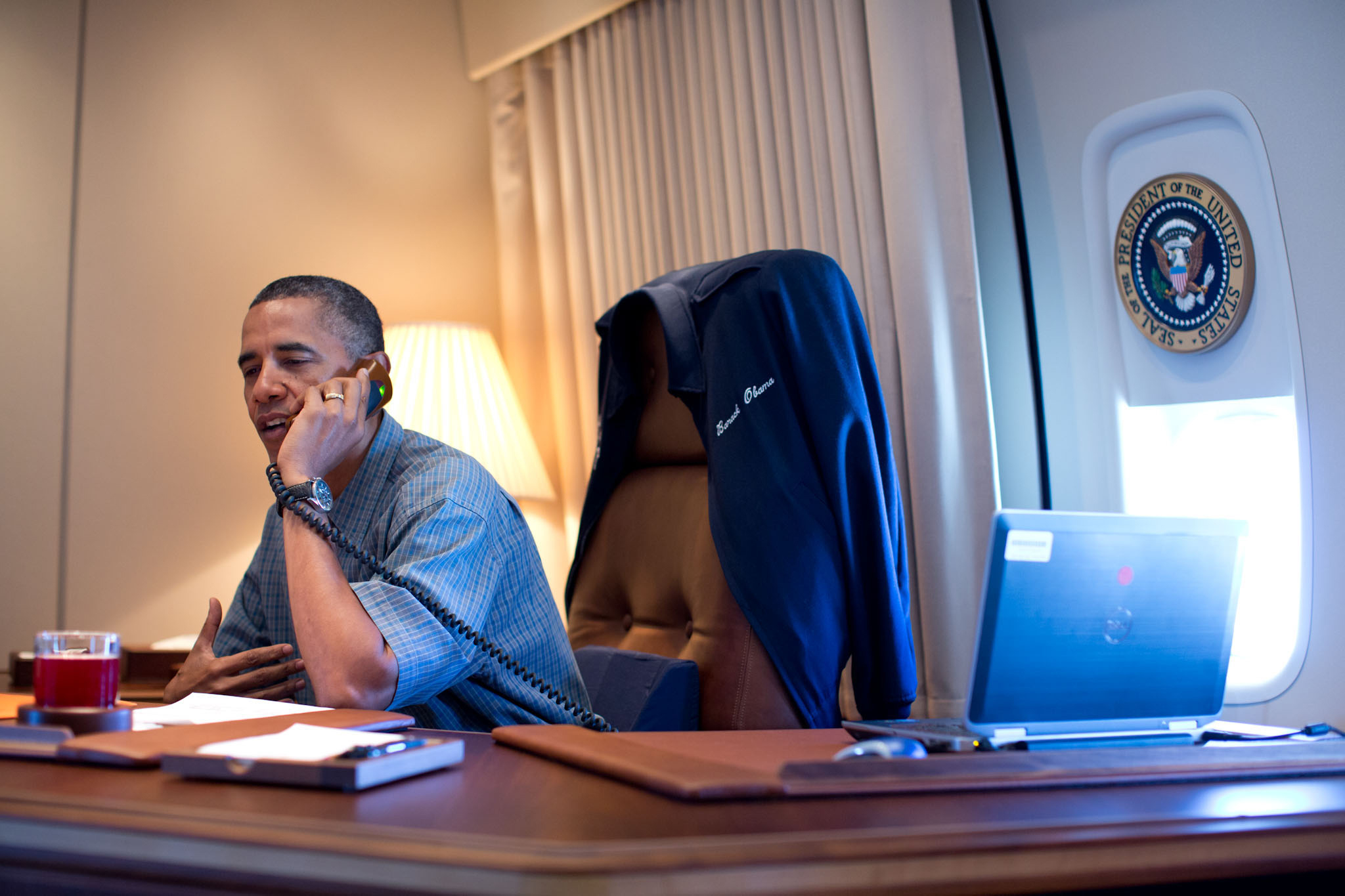 President Barack Obama talks on the phone with NASA's Curiosity Mars rover team aboard Air Force One during a flight to Ouffutt Air Force Base in Nebraska, Aug. 13, 2012. (Official White House Photo by Pete Souza) This official White House photograph is, because it is a work of the US Federal Government, in the public domain from a copyright perspective, so while restrictions such as personality or privacy rights may apply, in general, manipulations that don't in any way suggest approval or endorsement of the President, the First Family, or the White House are allowed.